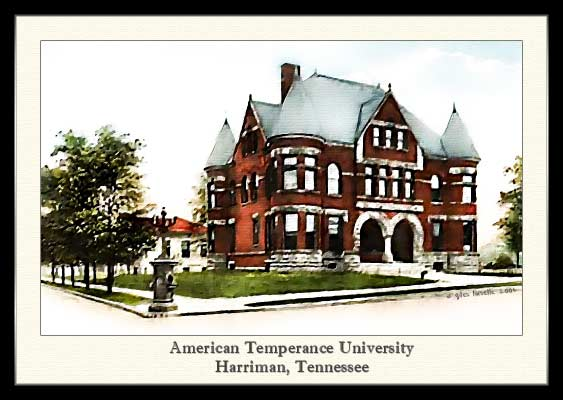 Harriman Temperance University building. Source: Own work based on [circa 1906 postcard] Date: 31 Jul 2006 Author: d giles loiselle